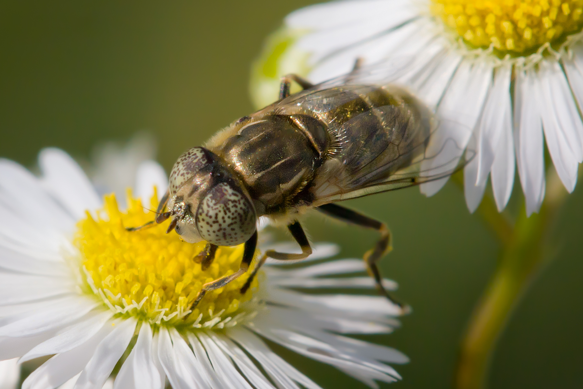 Eristalinus (Lathyropthalmus) aeneus